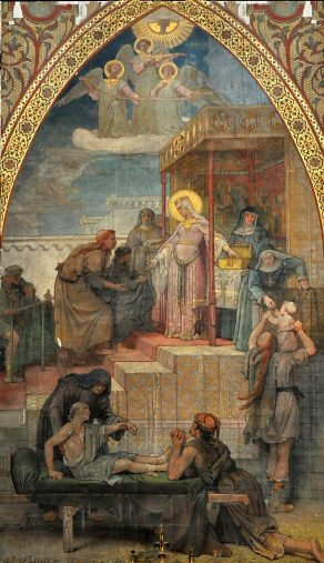 Fresco of Sainte-Clotilde secourant les pauvres in the Chapelle Sainte-Clotilde of the Basilique Sainte-Clotilde in Paris.